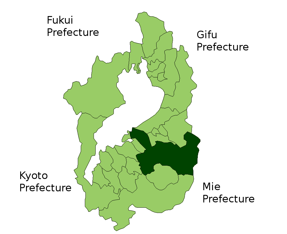 Location Map of Higashiomi in Shiga Prefecture, Japan